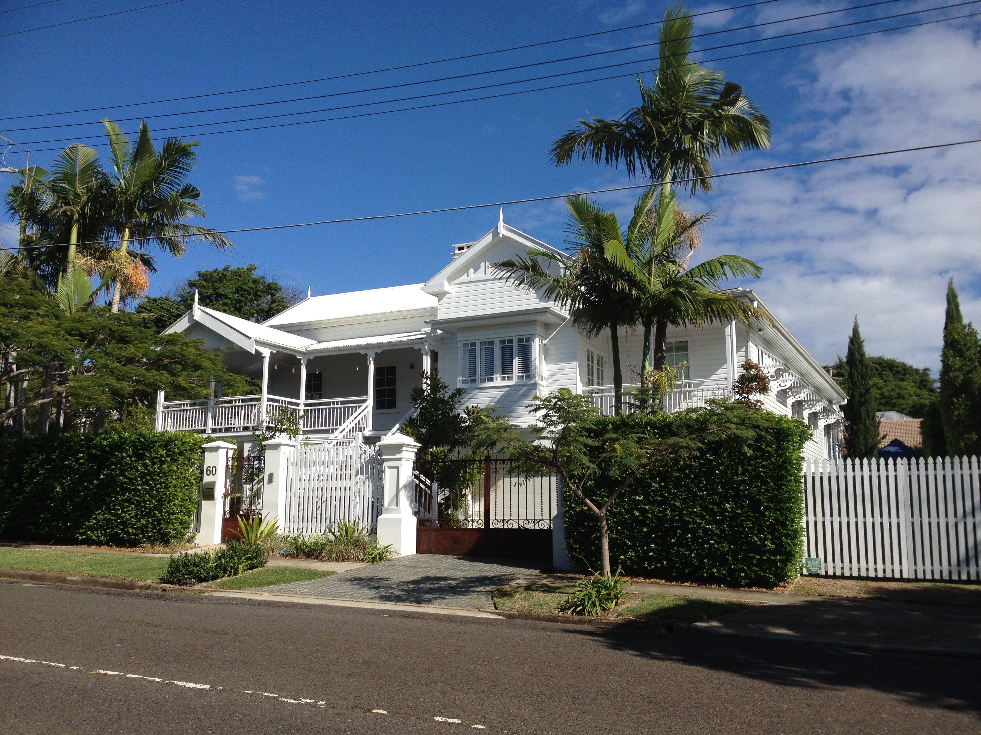 A house in Hendra, Queensland